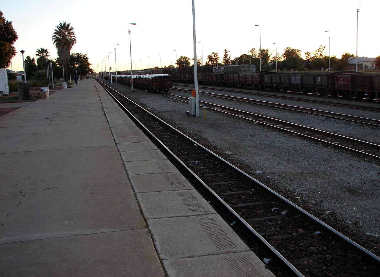 Upington station, Northern Cape, looking west